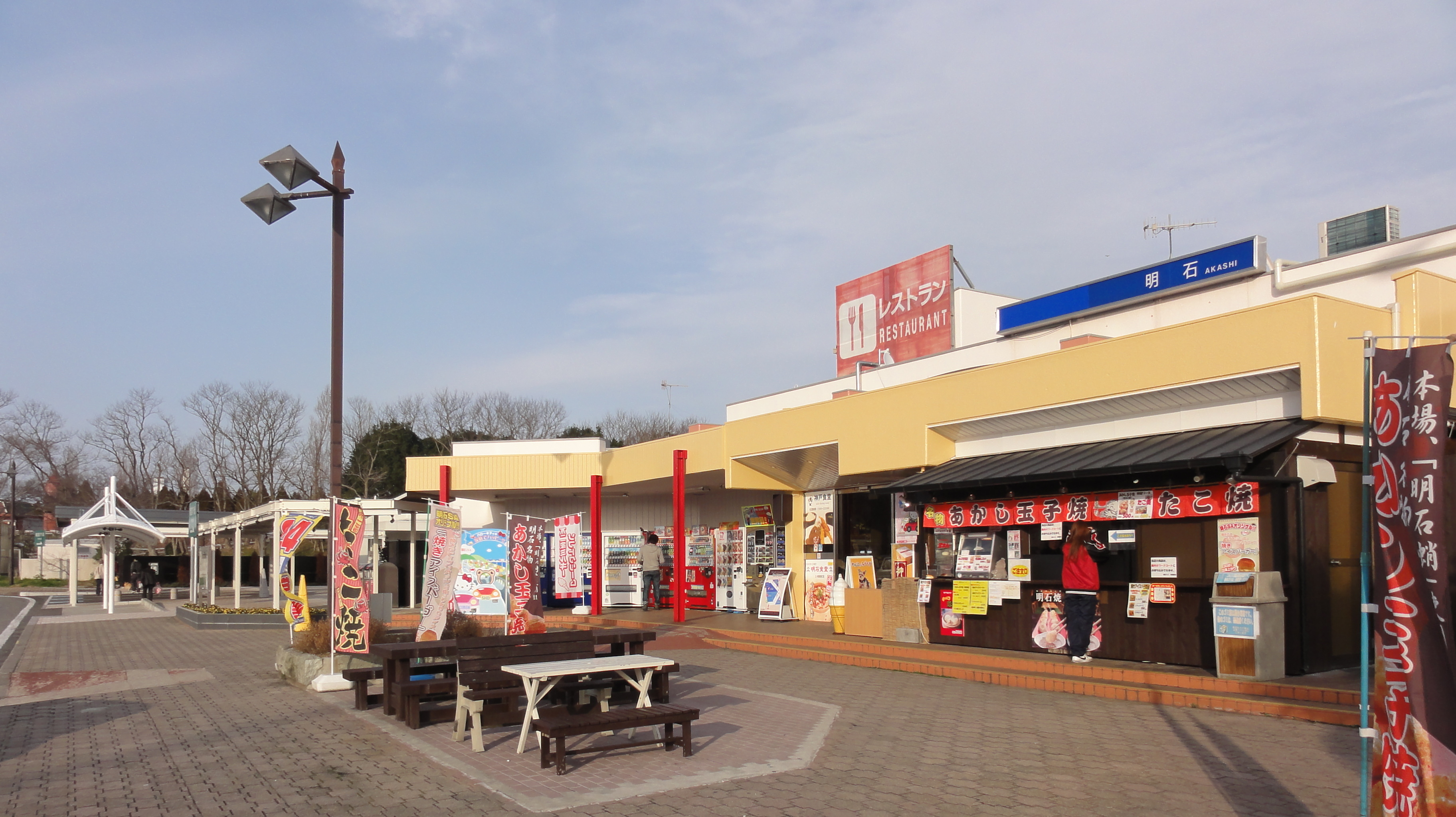 Akashi Service Area,Hyogo prefecture, Japan